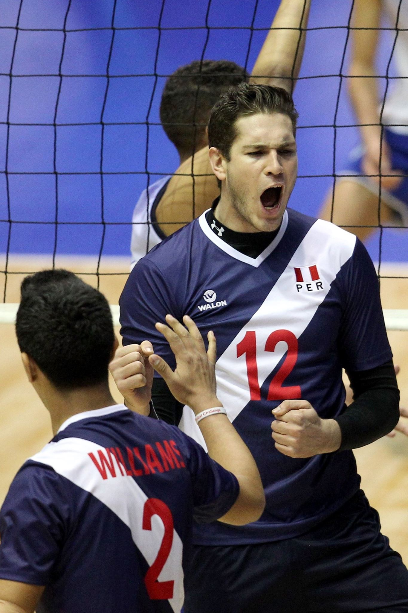 Central peruano sudamericano chile 2017